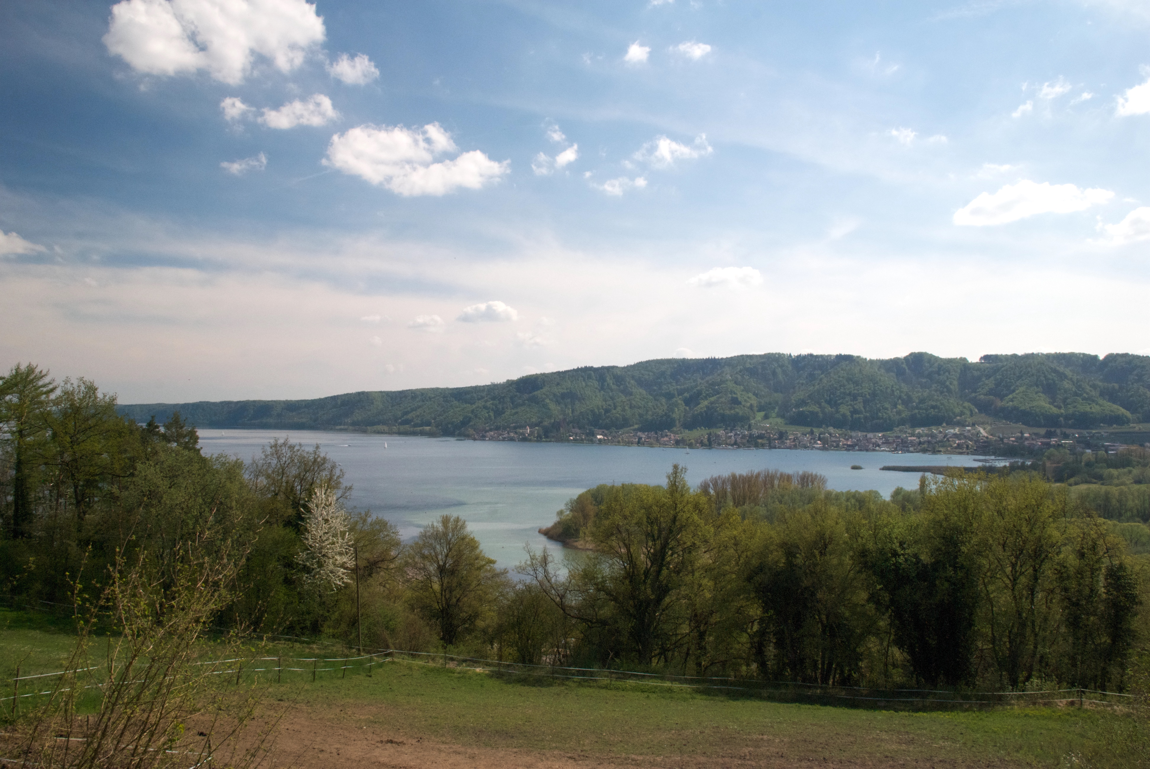 Blick aufs Naturschutzgebiet „Bodenseeufer (Bodman-Ludwigshafen)“